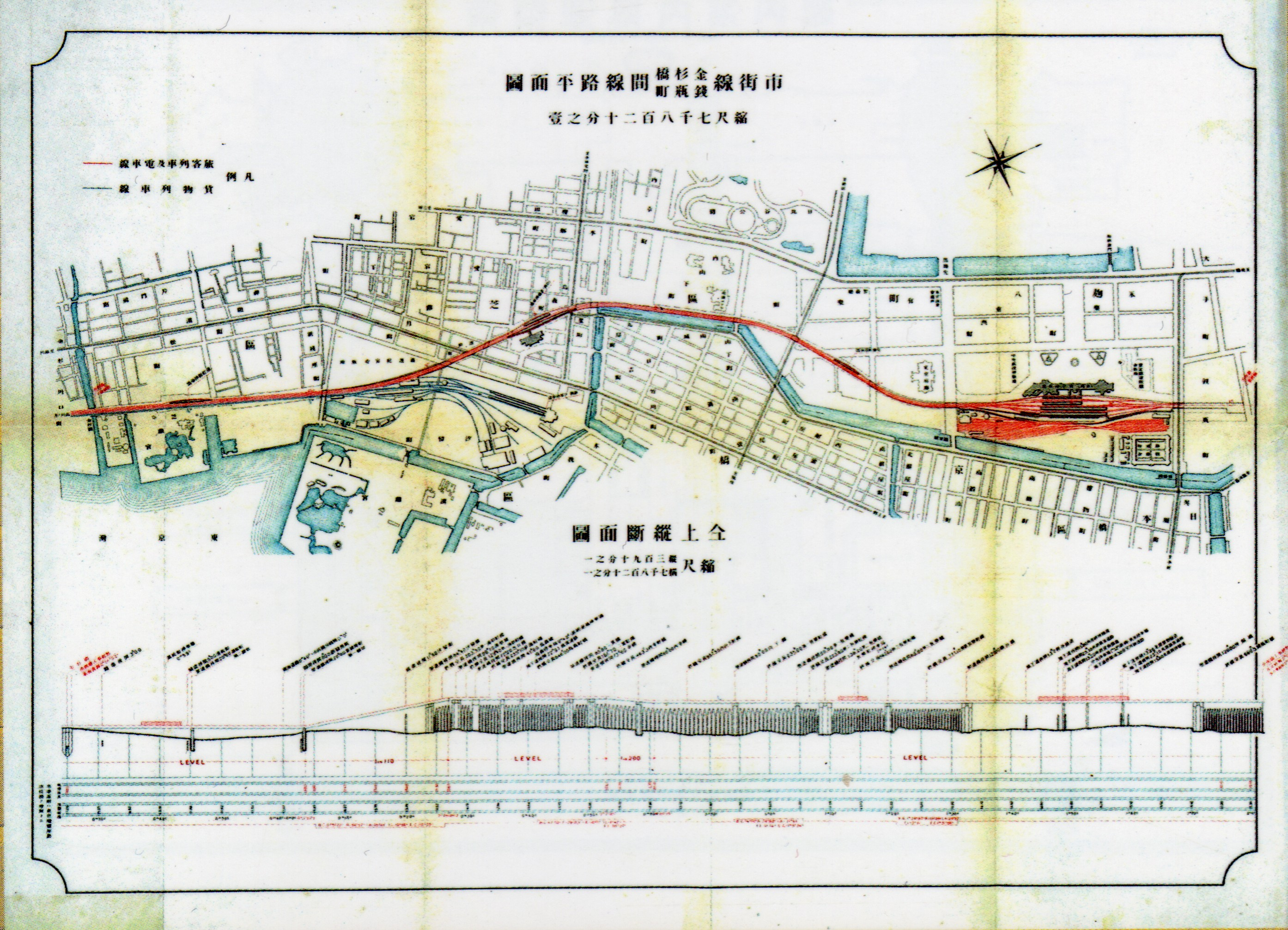 Route map of Tokyo viaduct. This viaduct carries Tokaido mainline to Tokyo station.